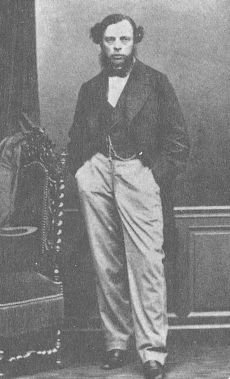 Old photo of Vassily I. Yakunchikov (1827-1907), Russian merchant and entrepreneur.